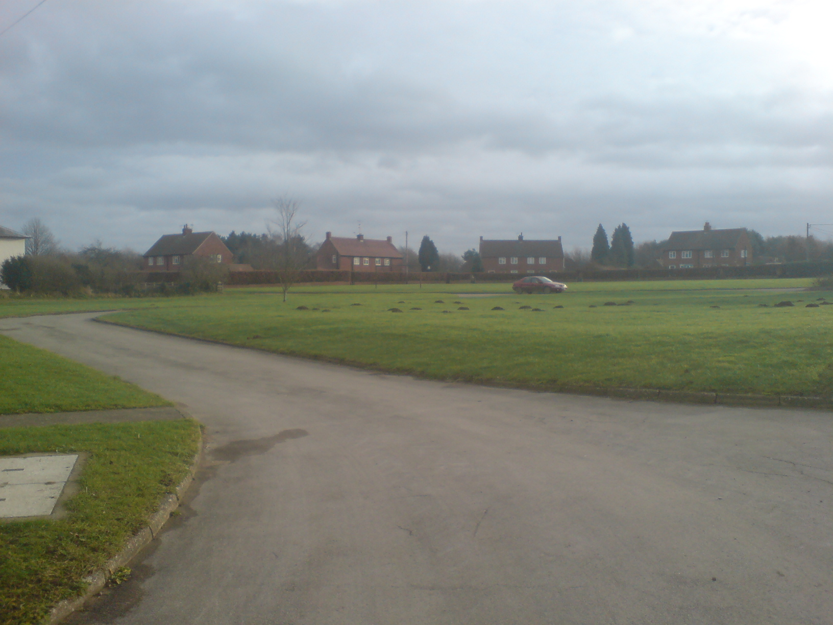 A photo of the village green at Perlethorpe